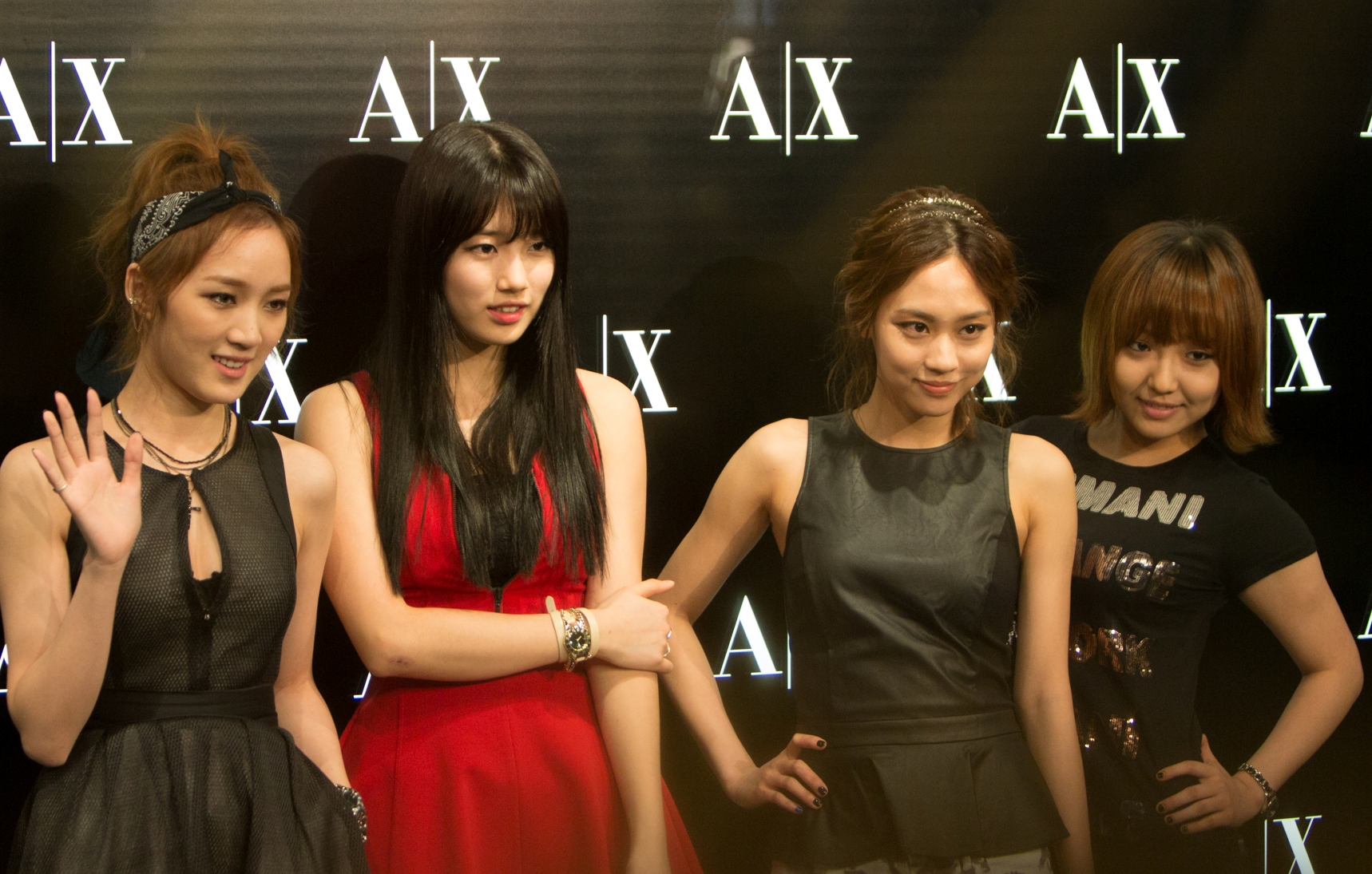 Miss A in Singapore, February 2013